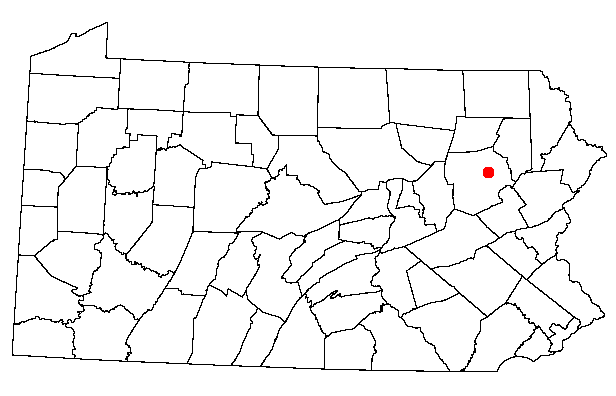 Pennsylvania state map with a dot on Wilkes-Barre. Adapted from Libre Map Project by Name Not Needed